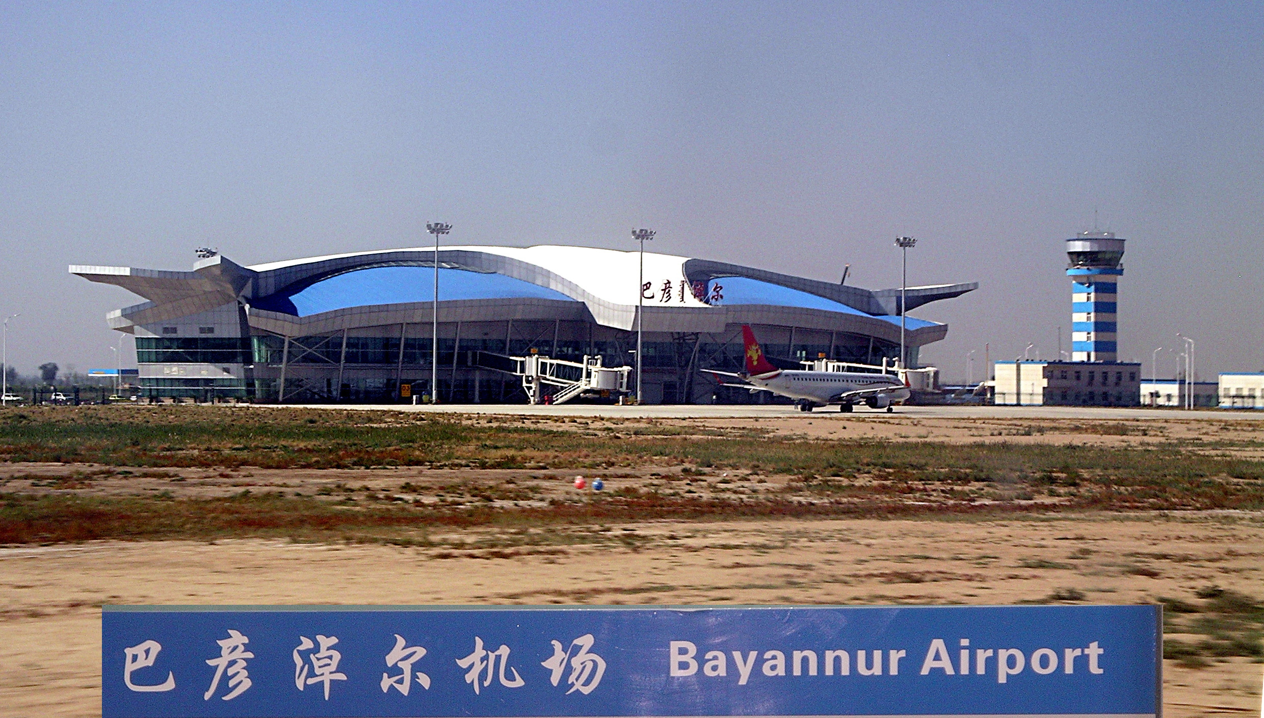 Airport of Bayannur the city in western Inner Mongolia